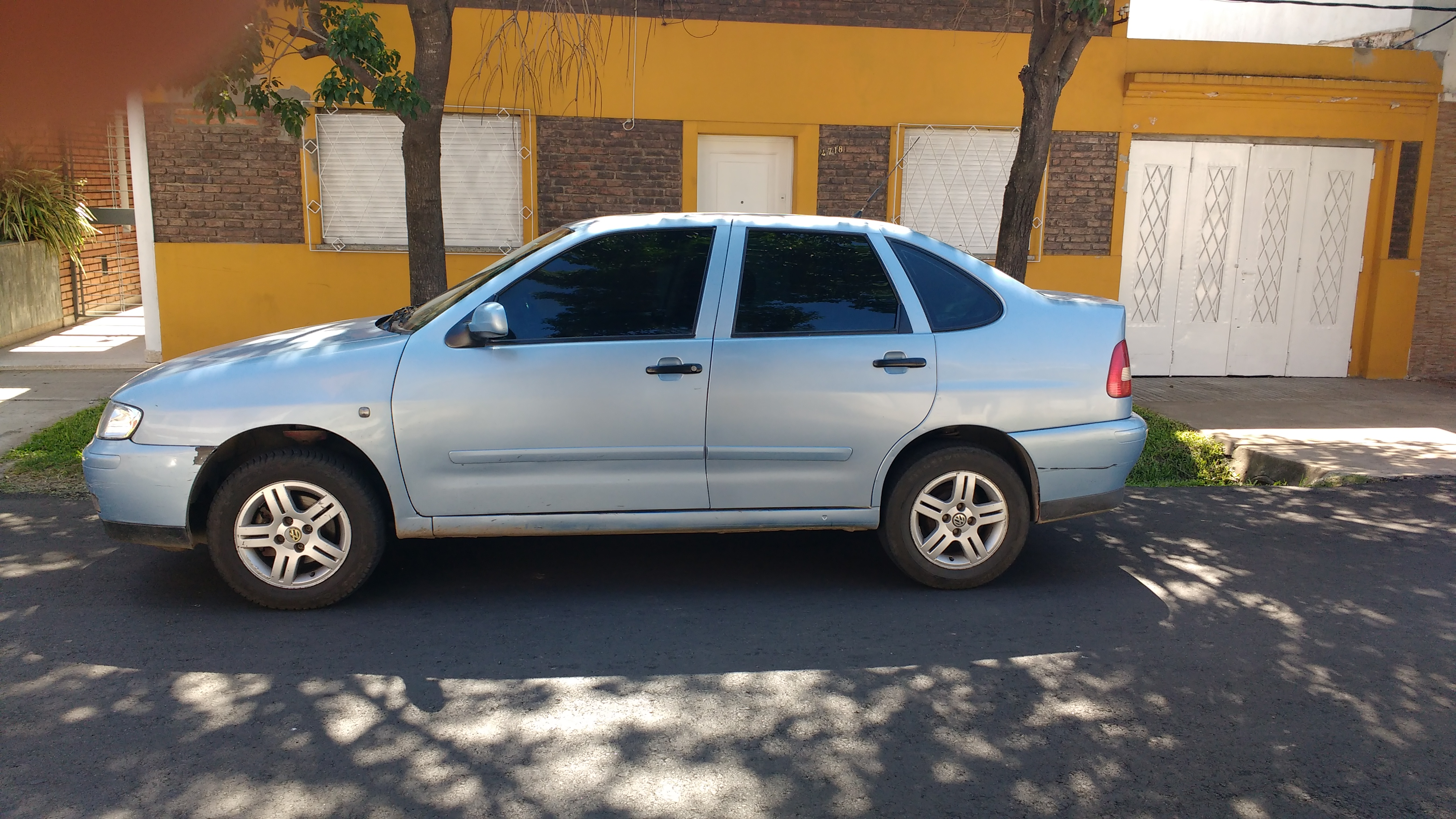 vw polo side